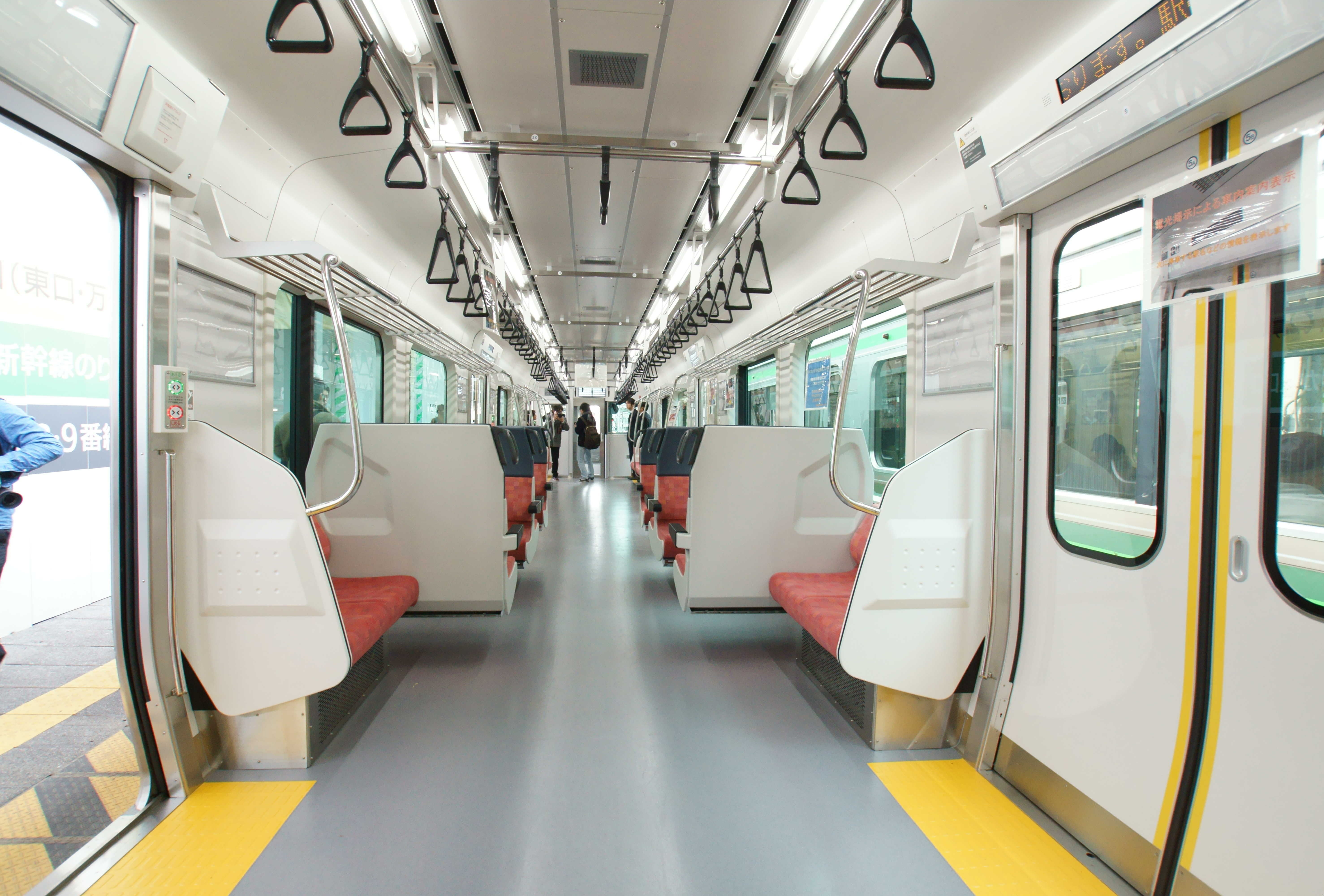 Interior view of a JR East E129 series EMU train (KuMoHa E129 car